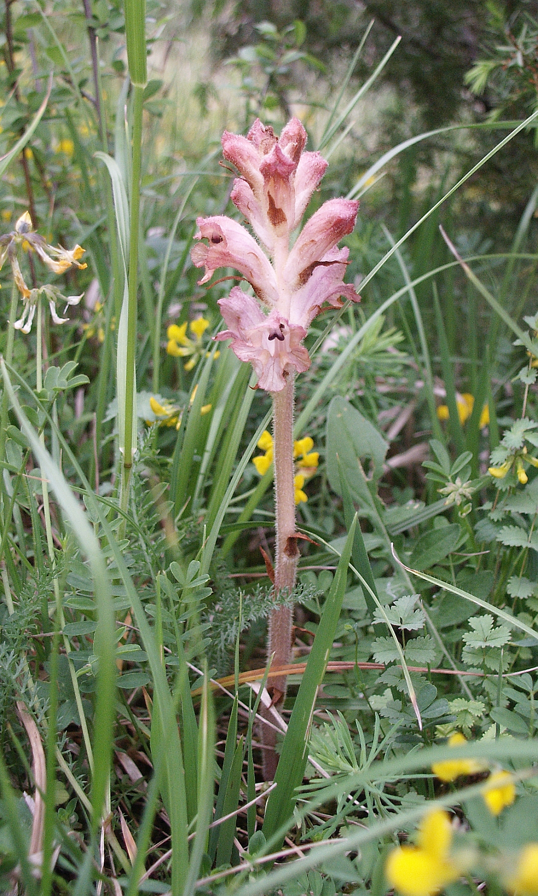 Orobanche caryophyllacea, Neckar-Odenwald, Germany